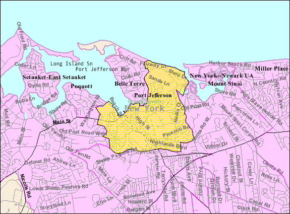 U.S. Census 2000 reference map for Port Jefferson